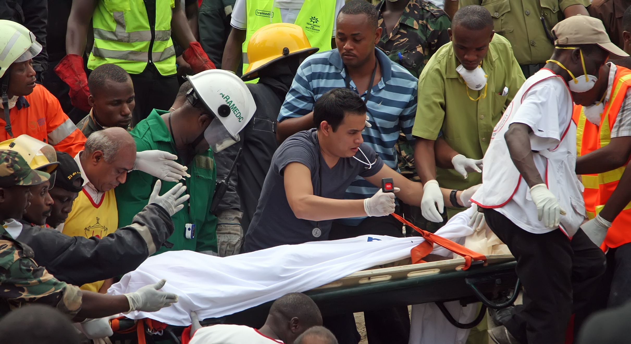 Members of the Tanzanian Red Cross and emergency servicemen remove one of the victims from the rubble of the 2013 Dar es Salaam building collapse